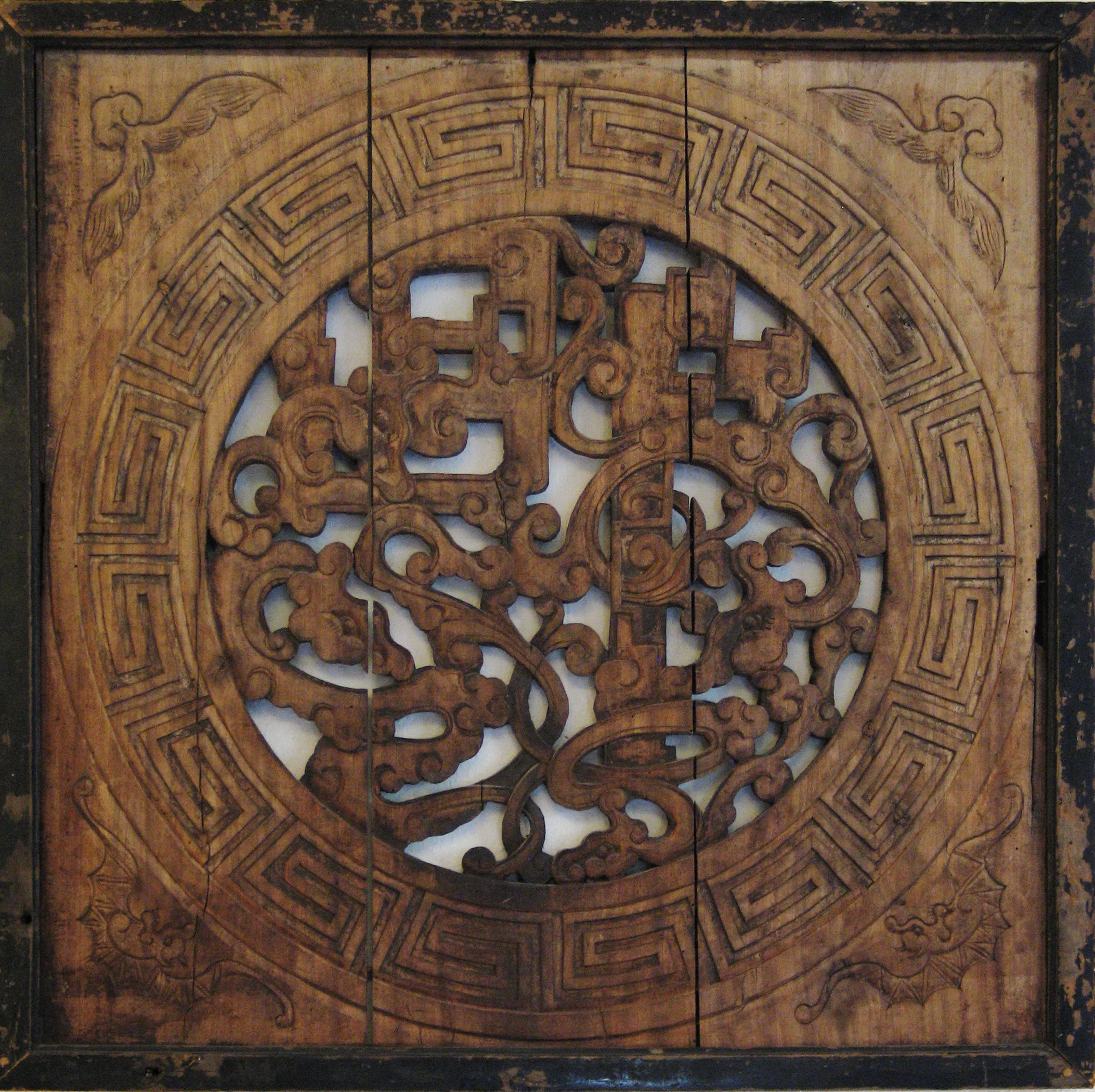 Chinese wooden lattice